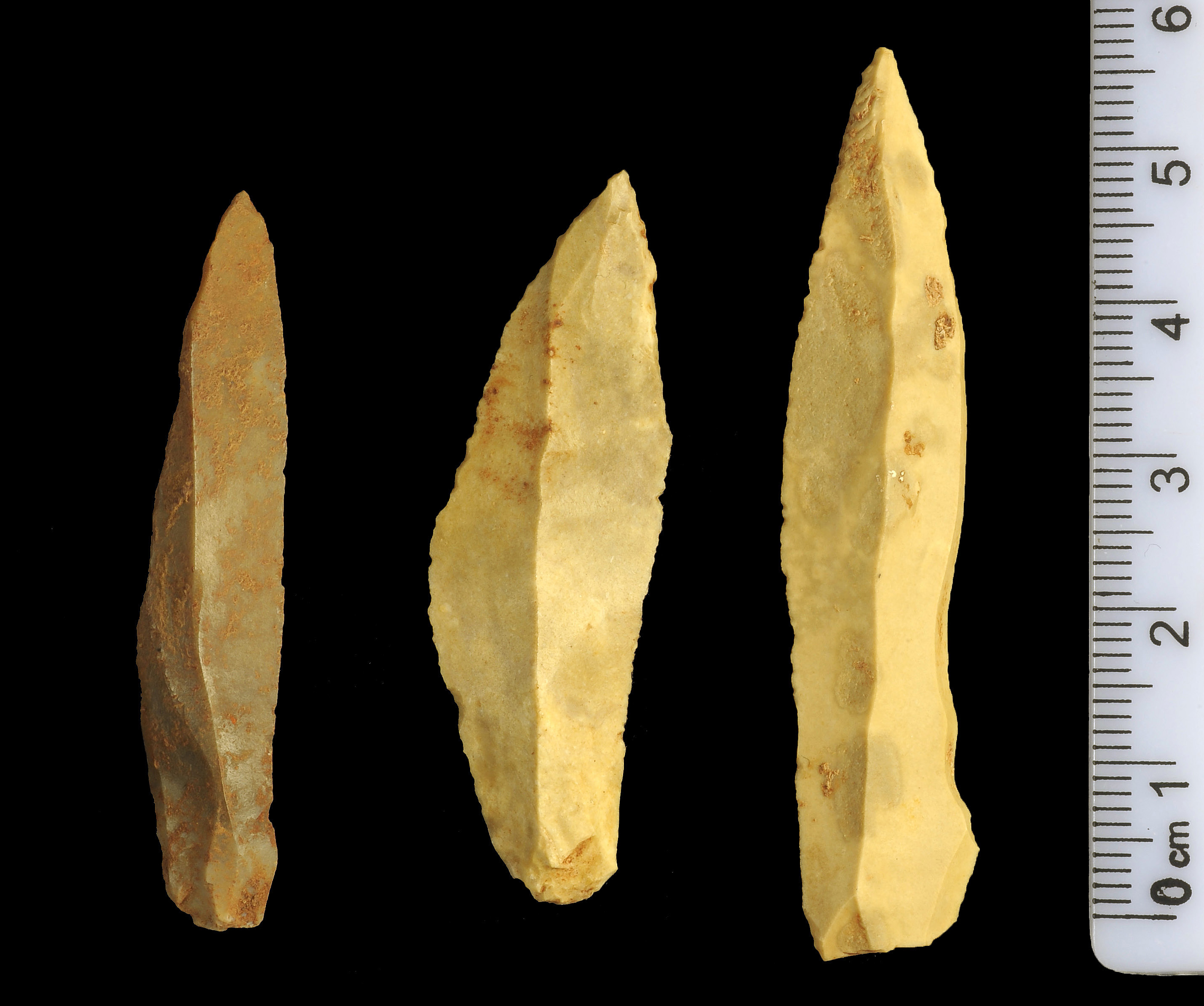 Flint tools. Manot Cave (Israel), The Upper Paleolithic Period.